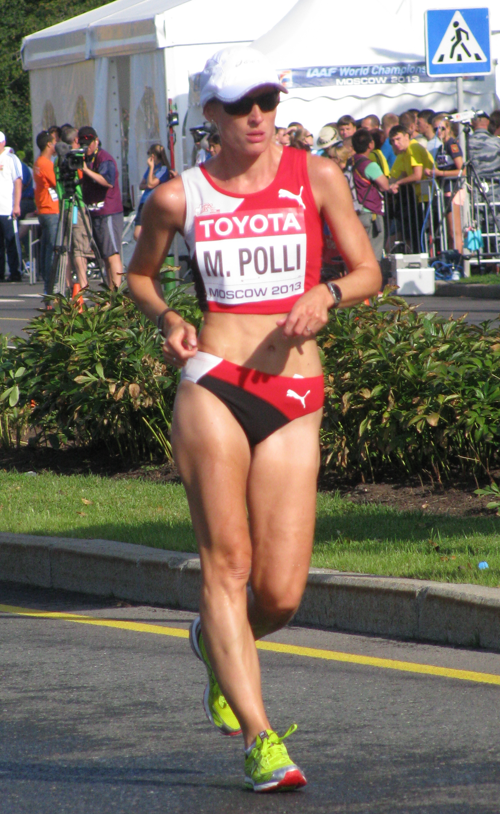 Marie Polli in action during Women's 20 kilometres walk at the 2013 World Championships in Athletics